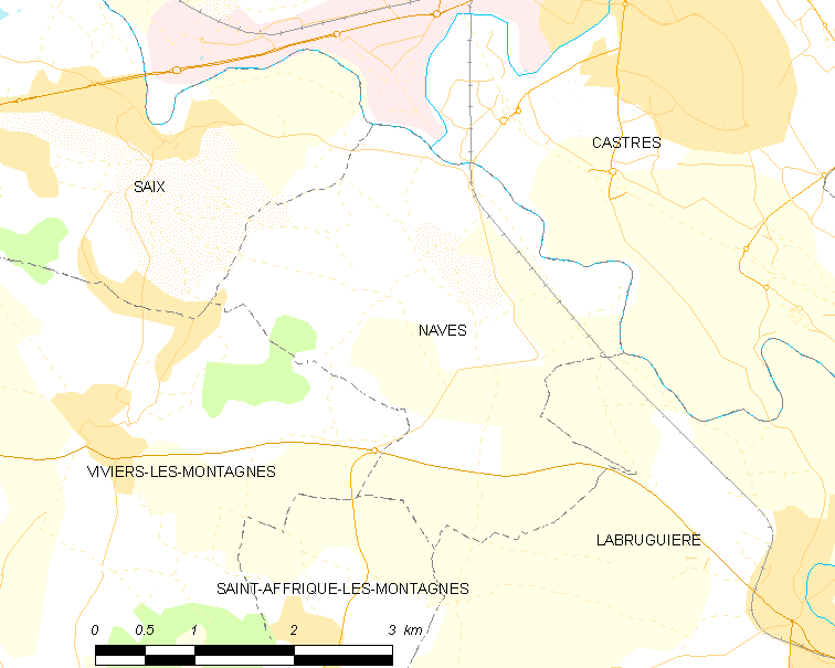 Map commune FR insee code 81195.png - Navès